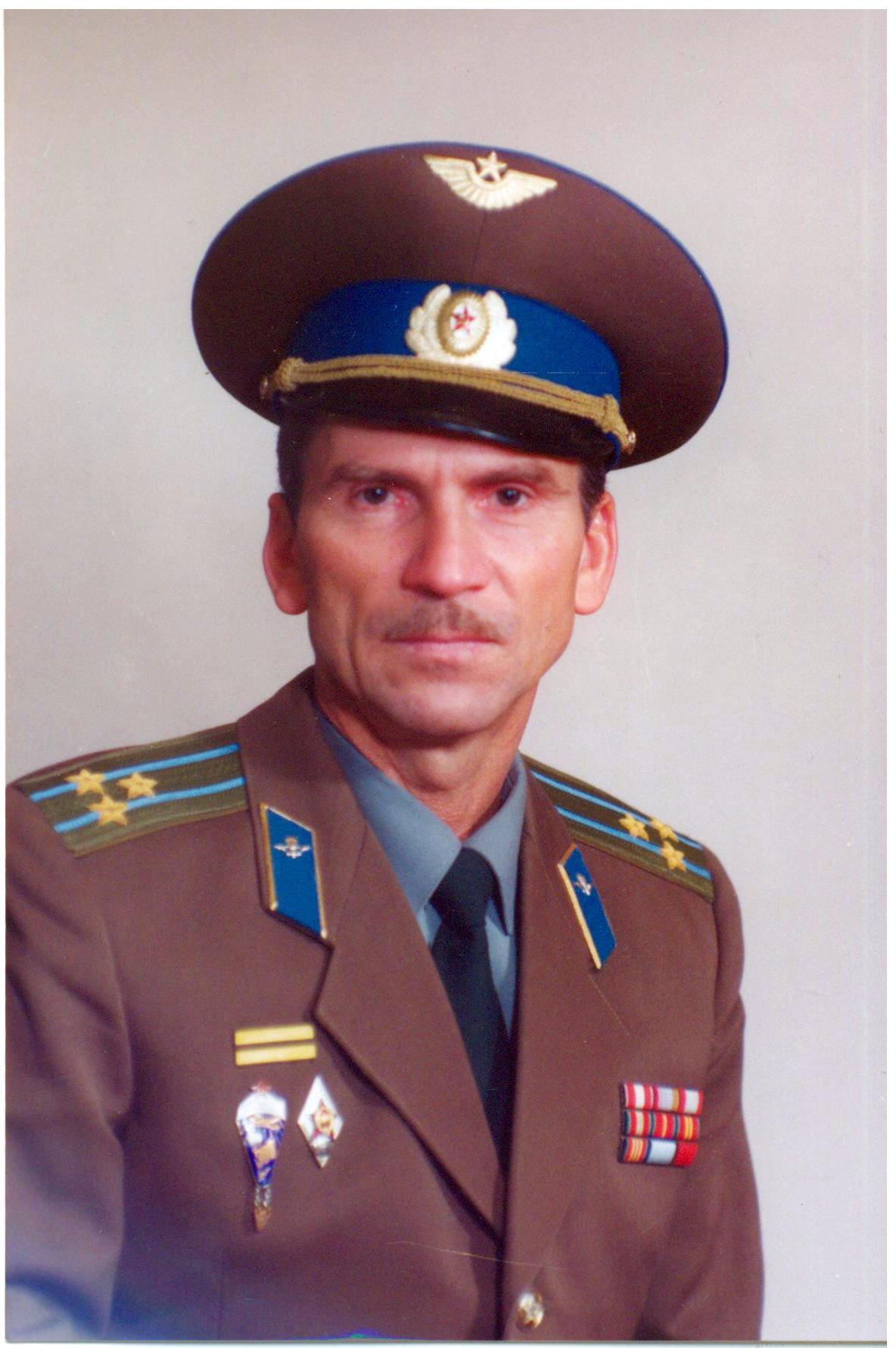 Col. Leonid Khabarov dressed in an everyday service uniform. The photo goes back to times of his service with the Carpathian Military District.